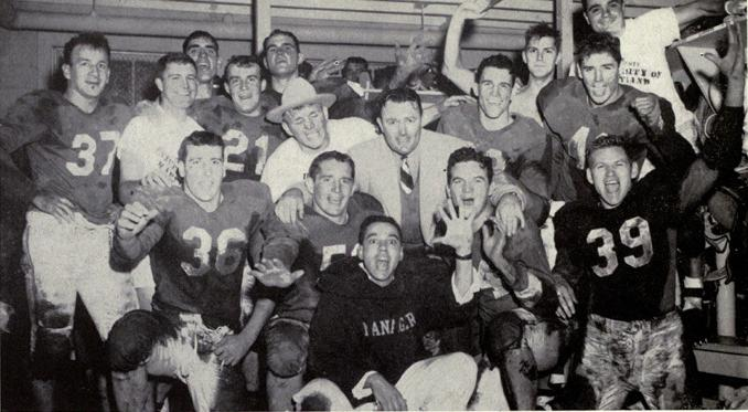 The 1951 Maryland Terrapins football team celebrates its victory over first-ranked Tennessee after the 1952 Sugar Bowl